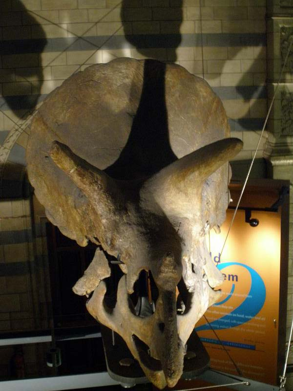 Triceratops skull at the Natural History Museum in London, England.